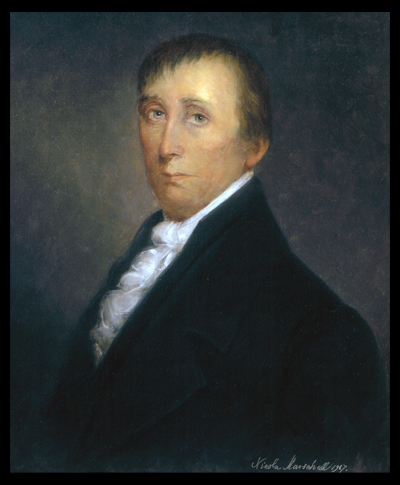 George Madison (1763–1816), the sixth Governor of the U.S. state of Kentucky